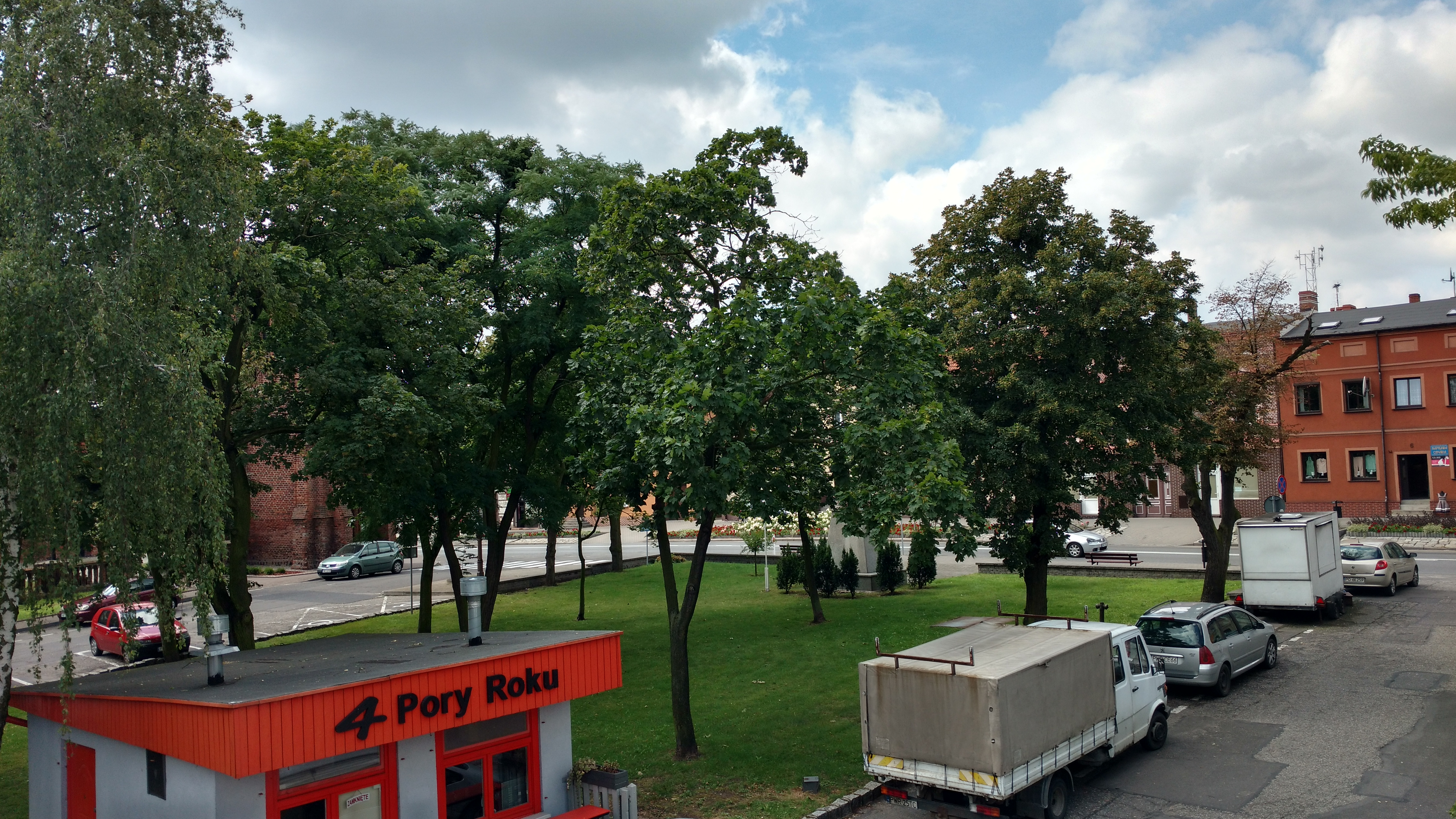 Garden square next to church of James the Great in Miłosław (Poland). At this square there is monument to Spring of Nations